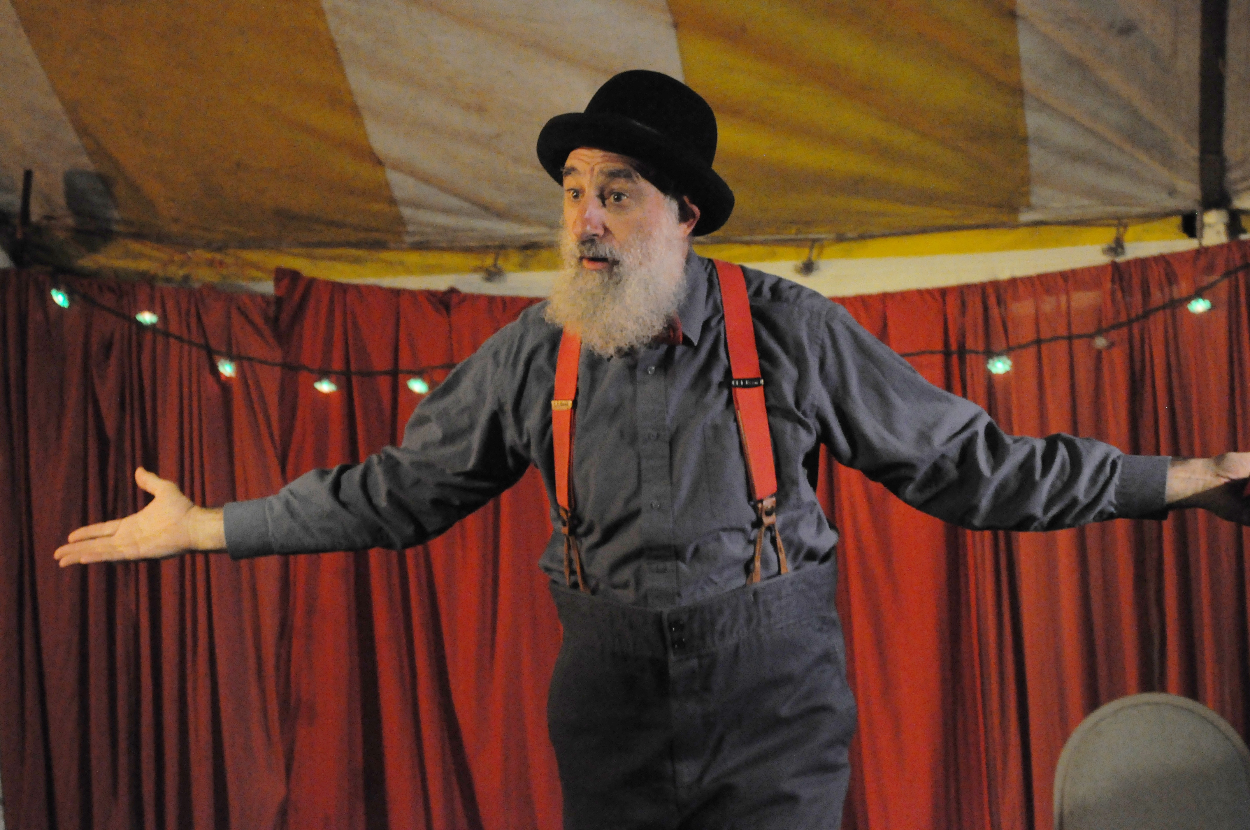 Avner the Eccentric (Avner Eisenberg) performing at Chumleighland, Camano Island, Washington, USA.